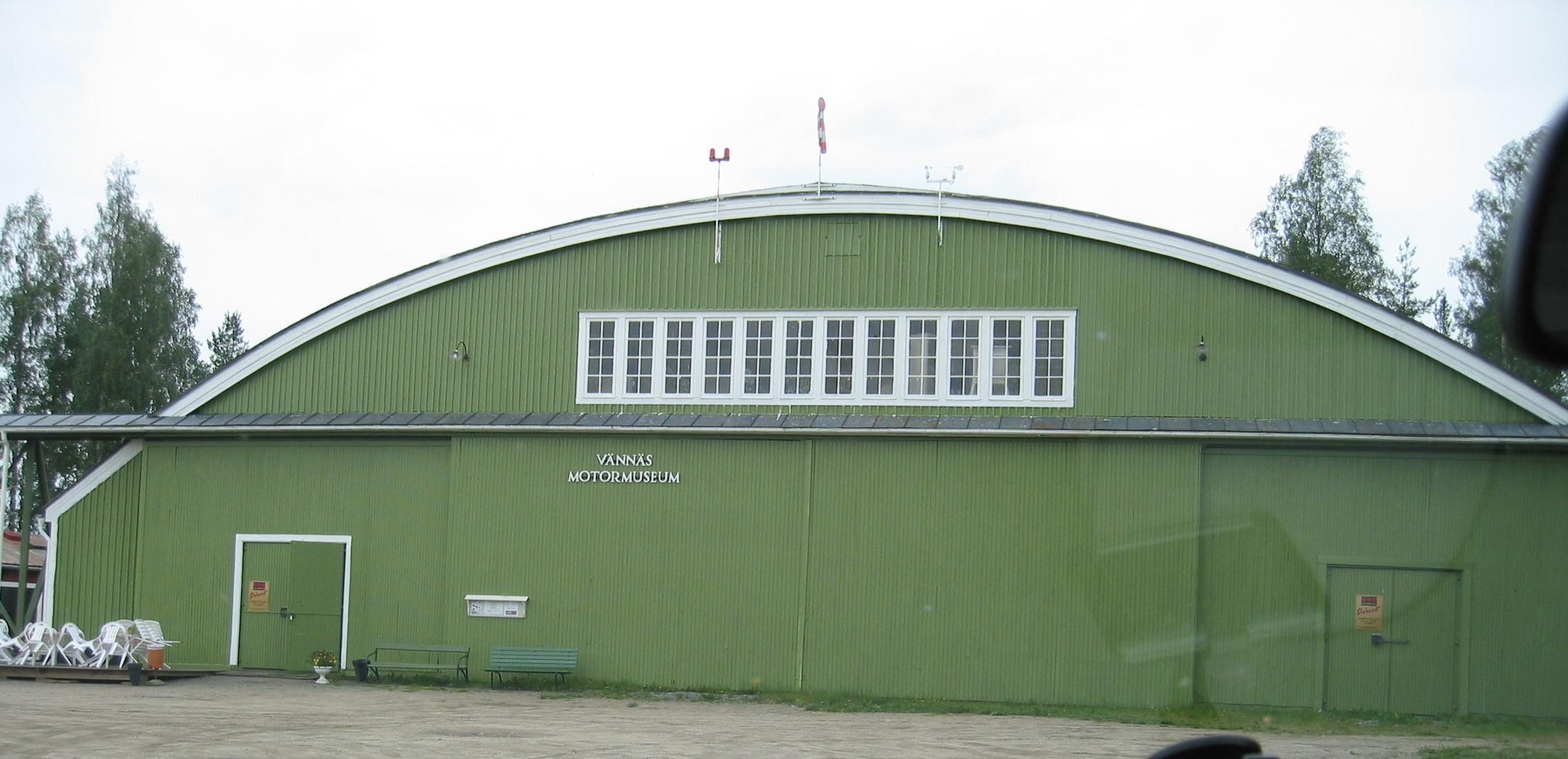 Building of the Car Museum in Vännäs, Sweden